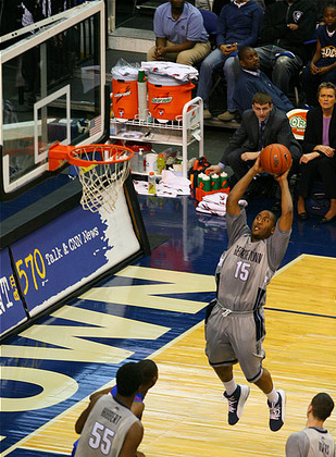 Austin Freeman of the Georgetown University Hoyas with the ball in a game against the American University Eagles at the Verizon Center in Washington, D.C.